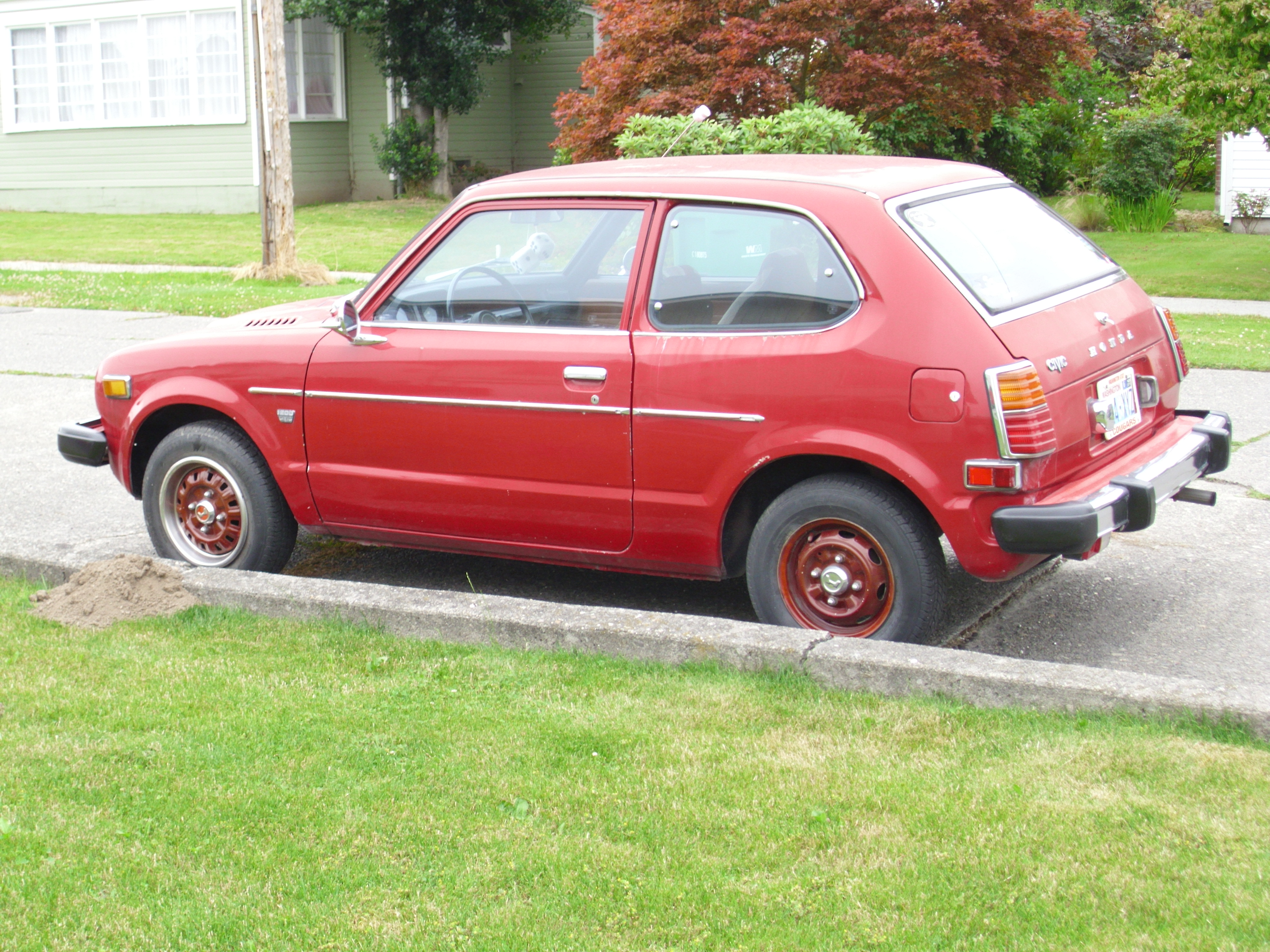 Sedro Woolley